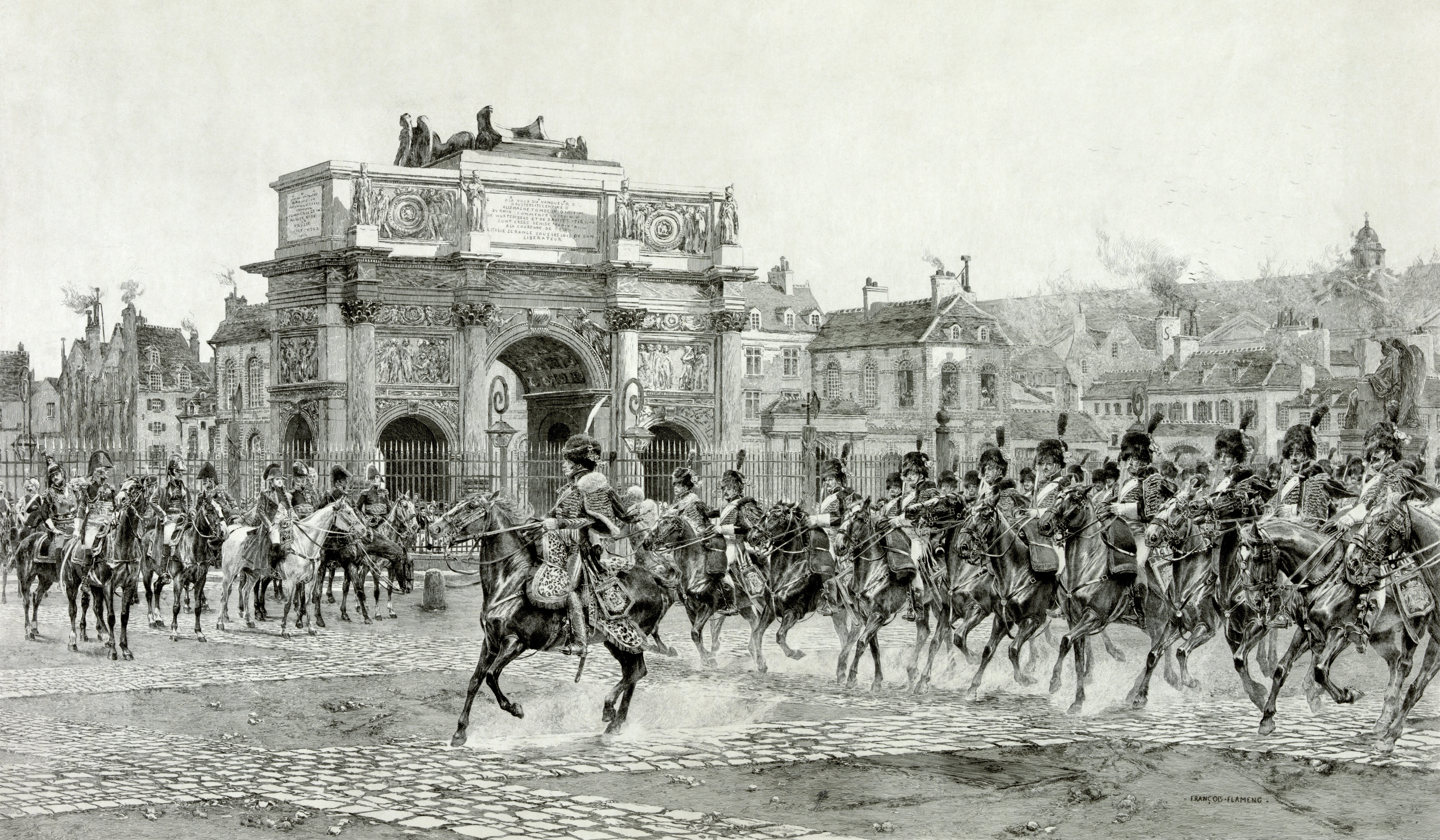 "La Revue 1810". Napoleon I, on horseback, reviewing cavalry troops passing behind the Arc de Triomphe du Carrousel in Paris in 1810. Etching by Auguste Boulard (fils) (1852-1927) after François Flameng (1856-1923)